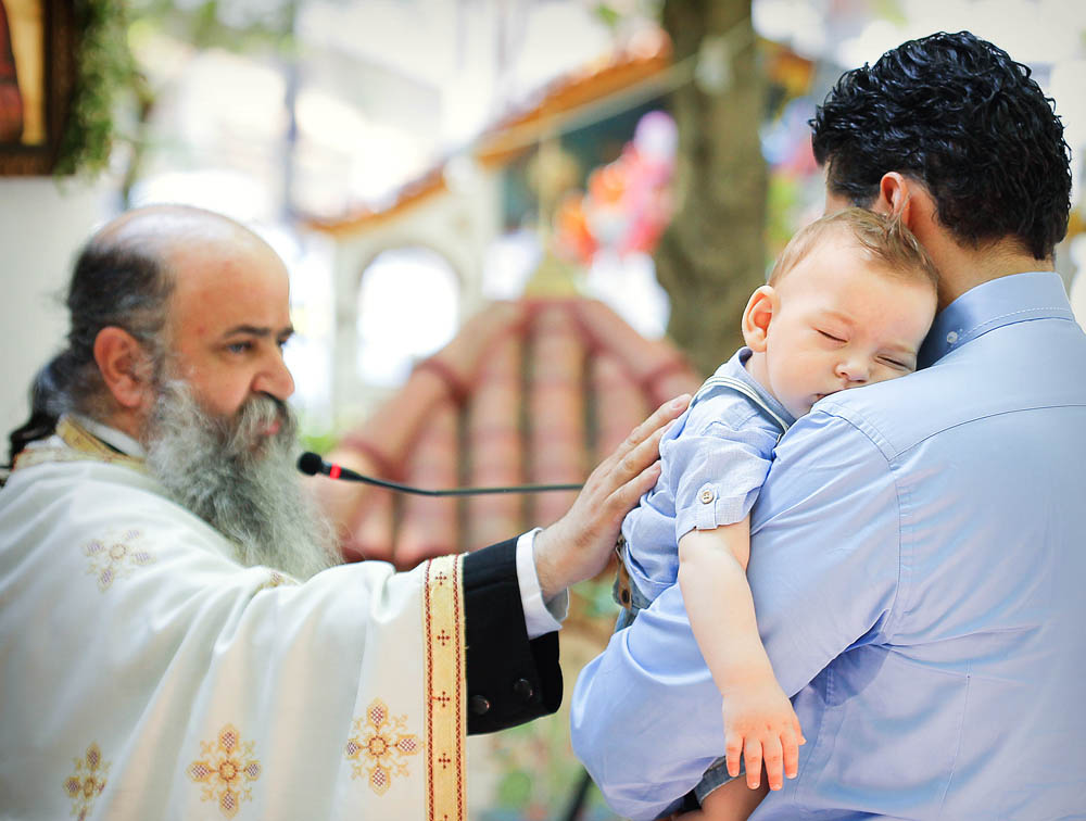 Christening photograph in Orthodox Church. The moment of Catechism.